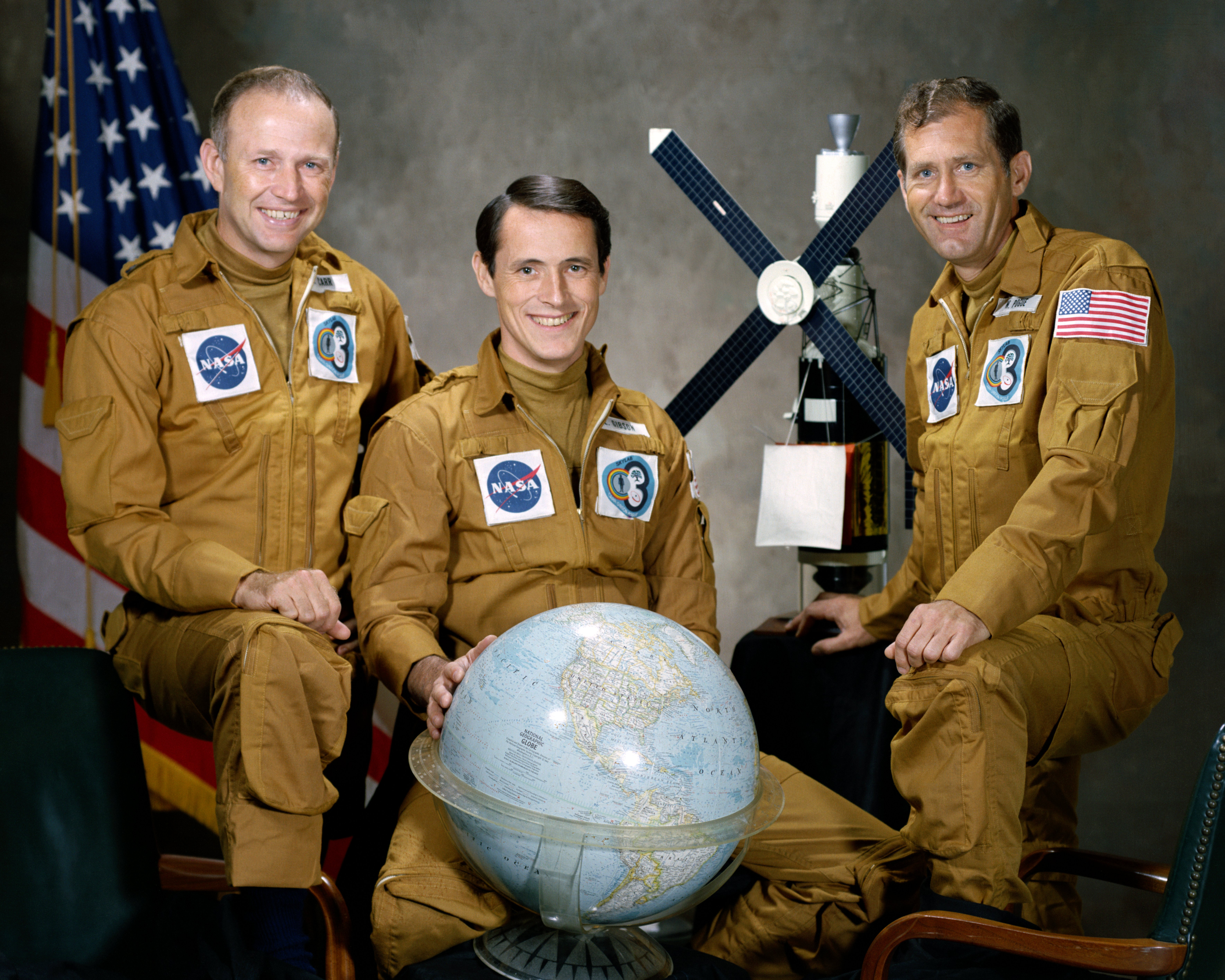 These three men are the prime crewmen for the Skylab 4 mission. Pictured in their flight suits with a globe and a model of the Skylab space station are, left to right, Astronaut Gerald P. Carr, commander; Scientist-Astronaut Edward G. Gibson, science pilot; and Astronaut William R. Pogue, pilot.